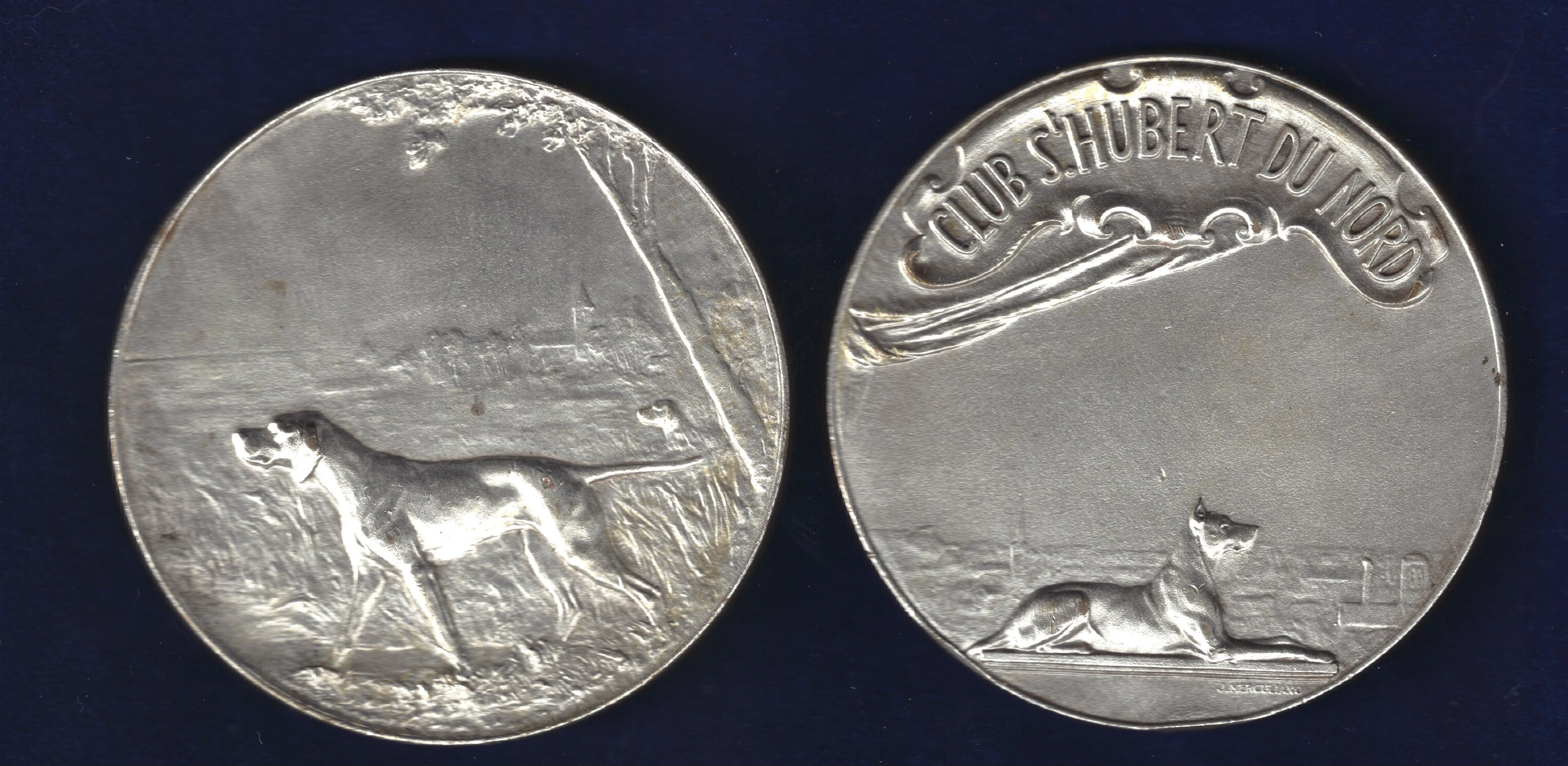 Silvered bronze medallions. D. = 50 mm. Hound on plinth r., cityscape behind, curved above : "CLUB St. HUBERT DU NORD" / A hound in country l., village church in the background, and an other dog partly hidden at r. This kennel club resides in the north of France at Ostricourt, near Roubaix, just south of the border to Belgium. Medallist : J. (Giacomo Jaques) Merculiano, Italian- French animal sculptor, 1859 Naples - 1935.